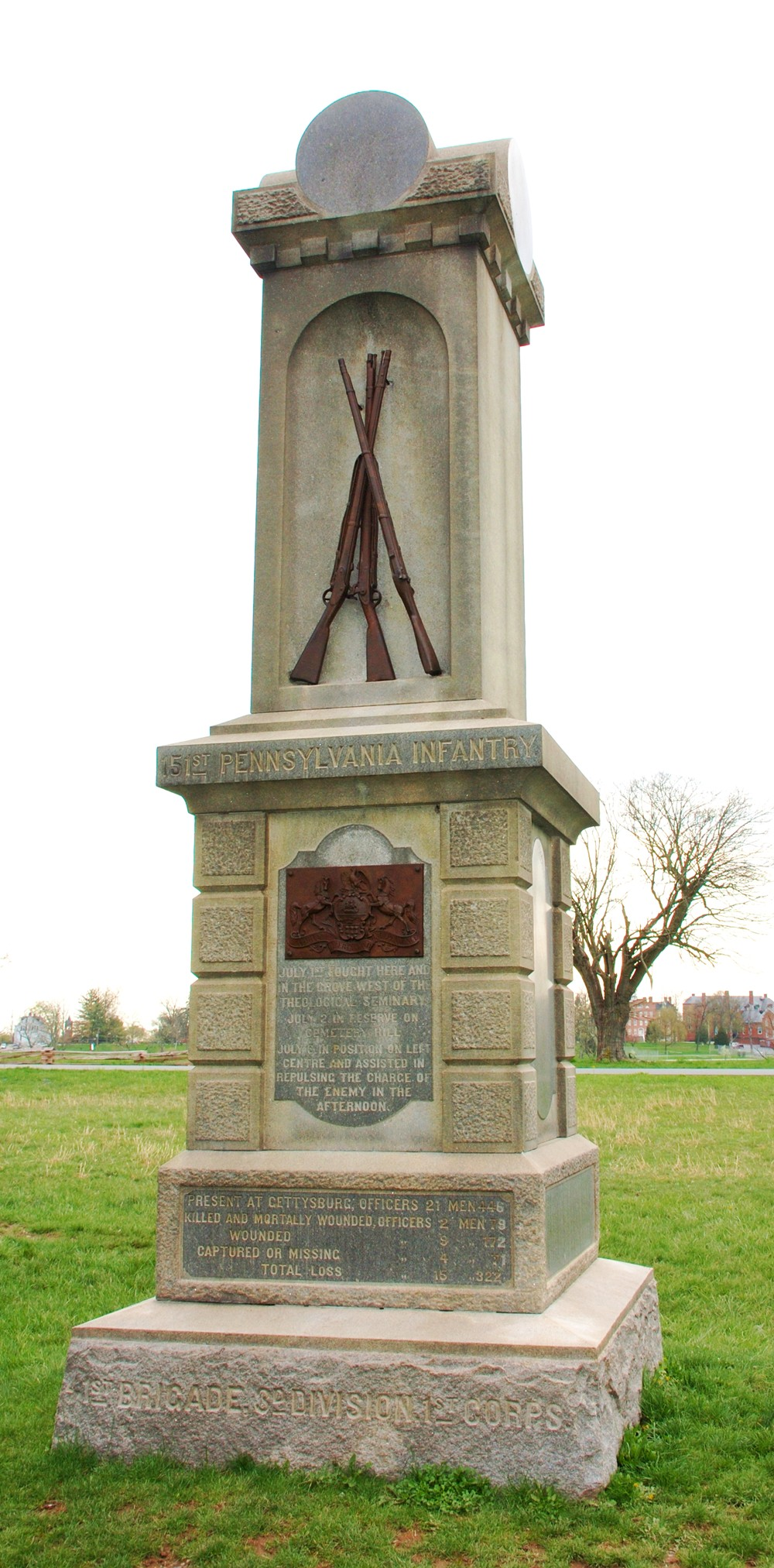 Monument dedicated to the 151st Pennsylvania Regiment located at the spot where they had their first day of action at Gettysburg on 1 July 1863.